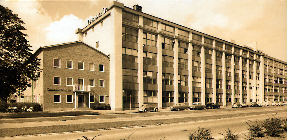 Photo of the Original-Odhner factory building in Gothenburg, Sweden, appr. 1965.